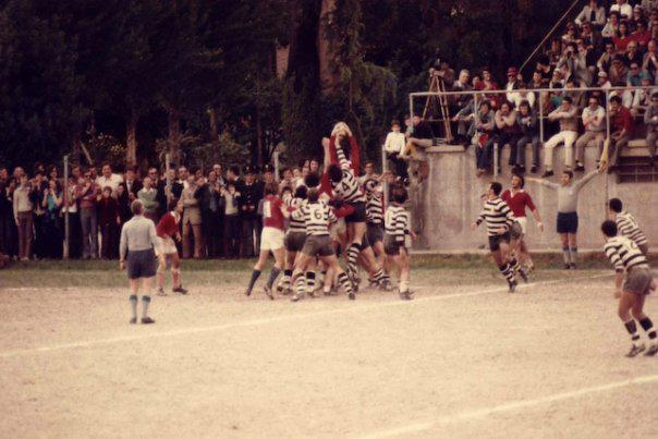 foto storica